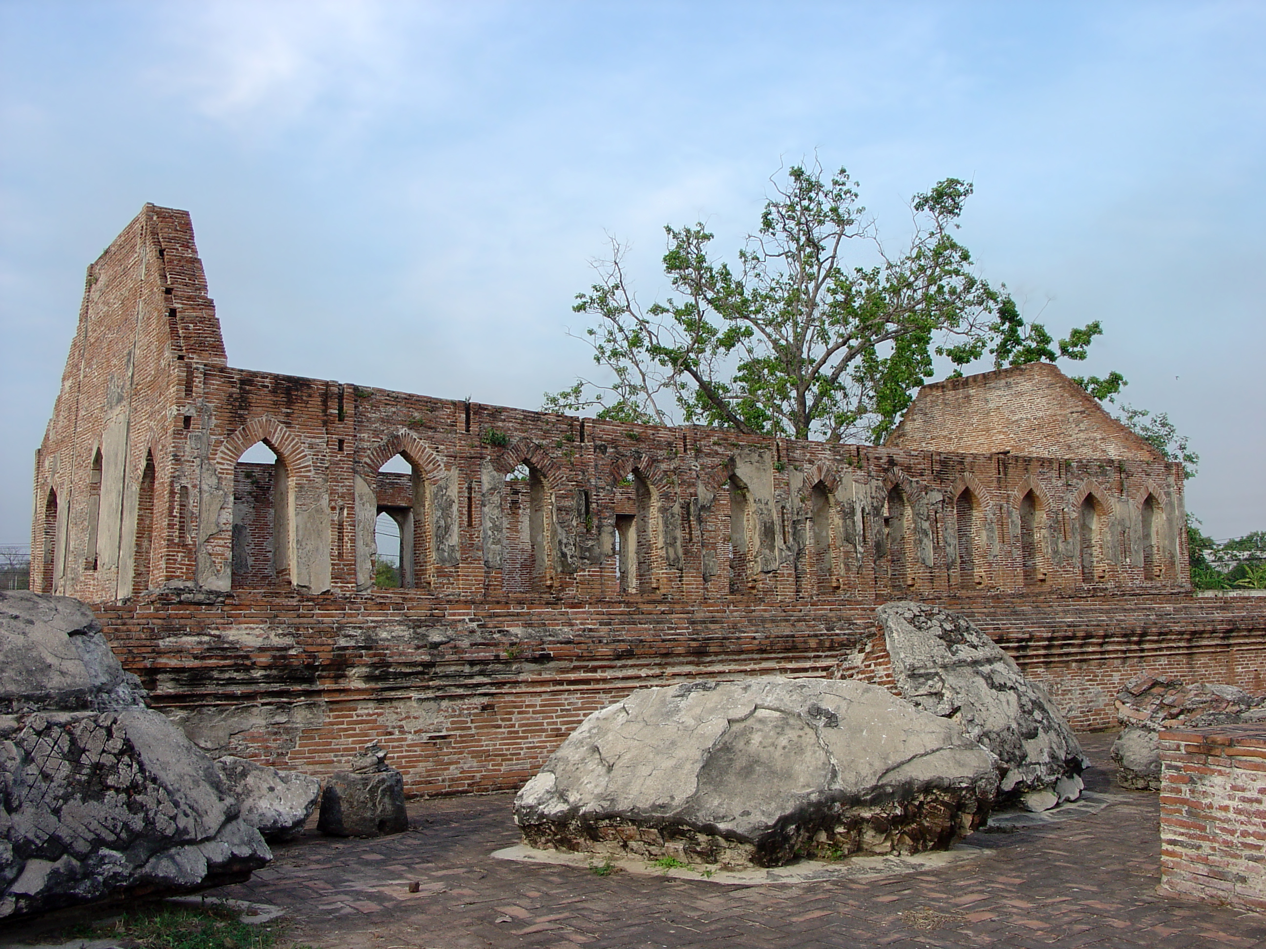 Tumnak Kummalaen (Tamnak Kamahan) is a two-story hall that is located just outside the low enclosure wall. It has been suggested that this building was the residence of Crown Prince Boromakot during his time at the monastery.